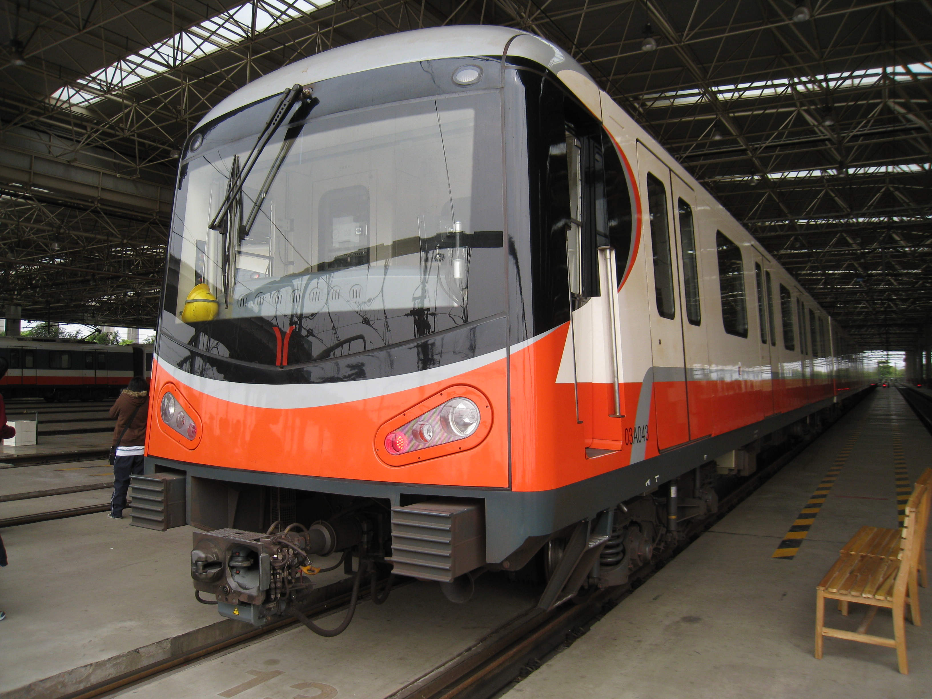 China's CSR Zhuzhou Electric Locomotive, Guangzhou Metro B train, summer Kau Depot